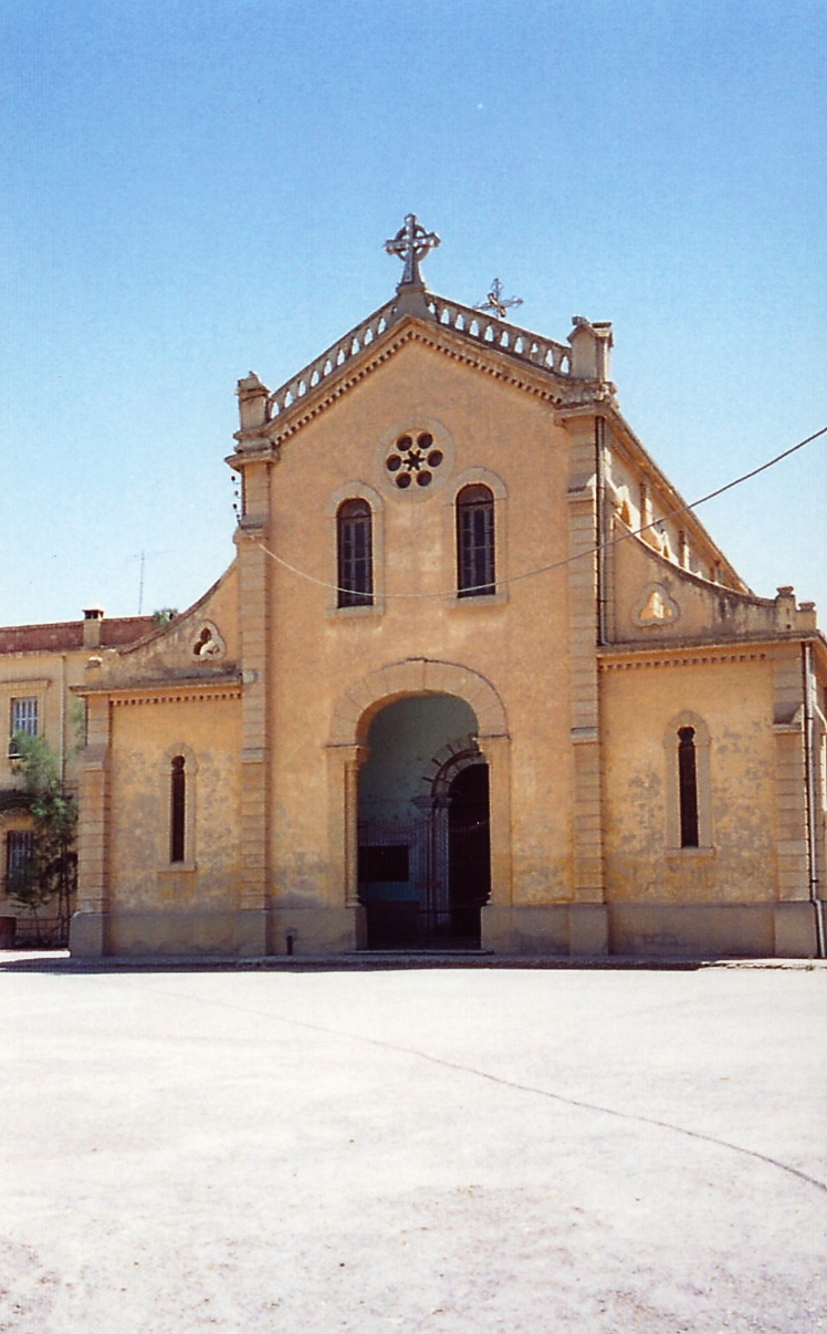 Photo: Soman